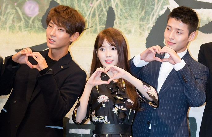 "Moon Lovers - Scarlet Heart Ryeo" press conference, 24 August 2016